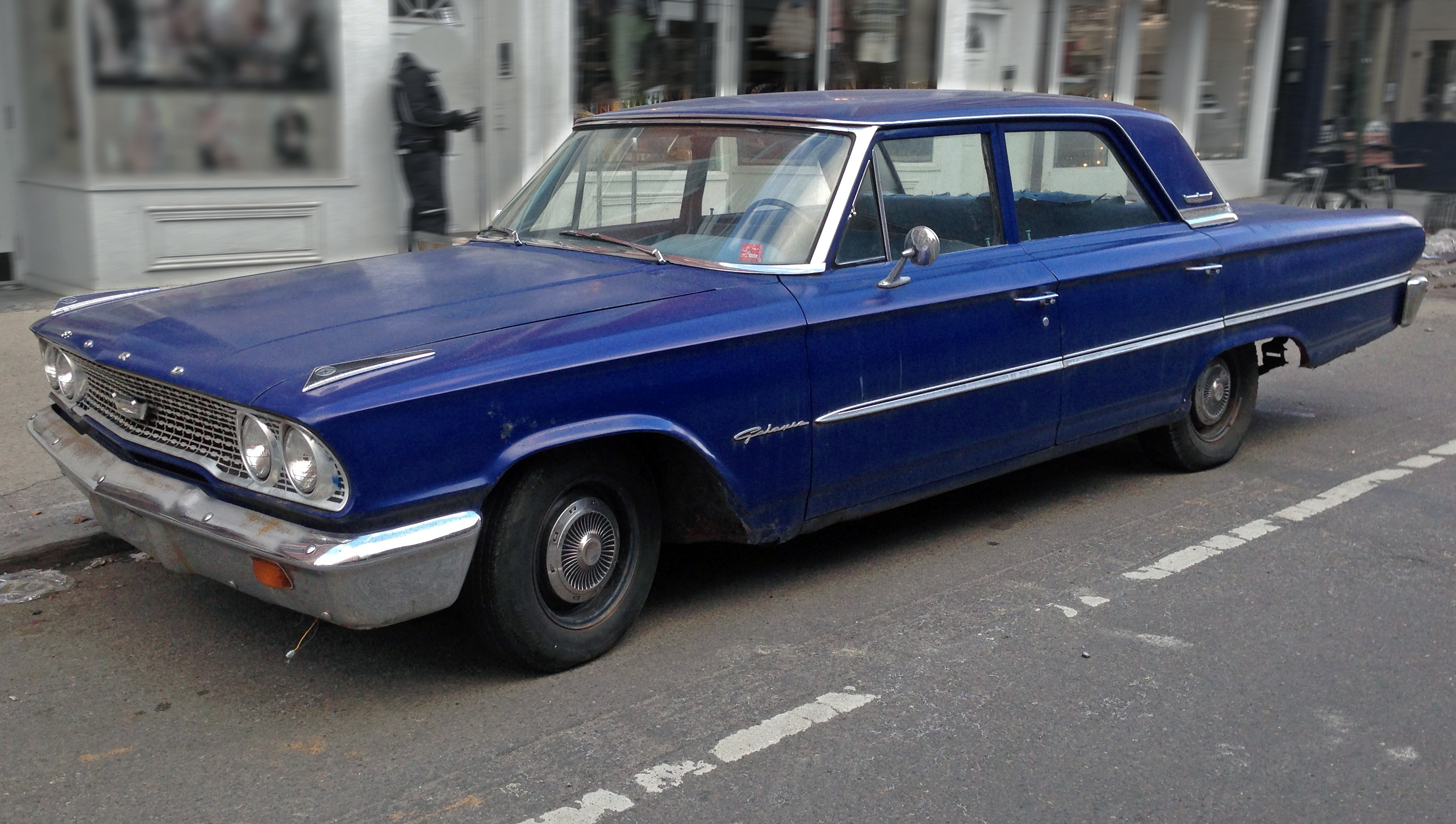 A 1963 Ford Galaxie parked in NYC's East Village for a movie/TV shoot. Bog standard sedan, rare to see these days when it looks as if people only ever drove convertibles in the past.